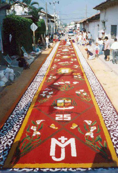 Saw dust carpet, a tradition during Holy Week in Comayagua, Honduras